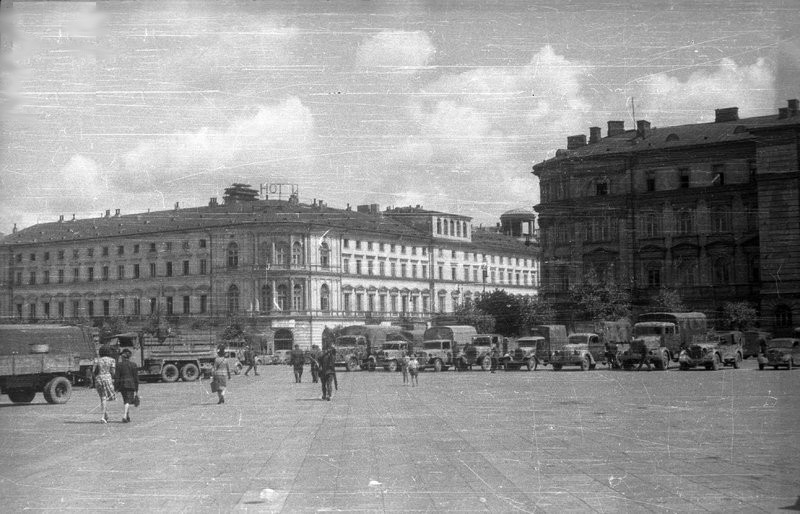 Month before WarsawUprising: Wehrmacht evacuates military archives into military trucks parked at Piłsudski Square. In the back one can see European Hotel building [1] (left) and Military Courts building [2](right).